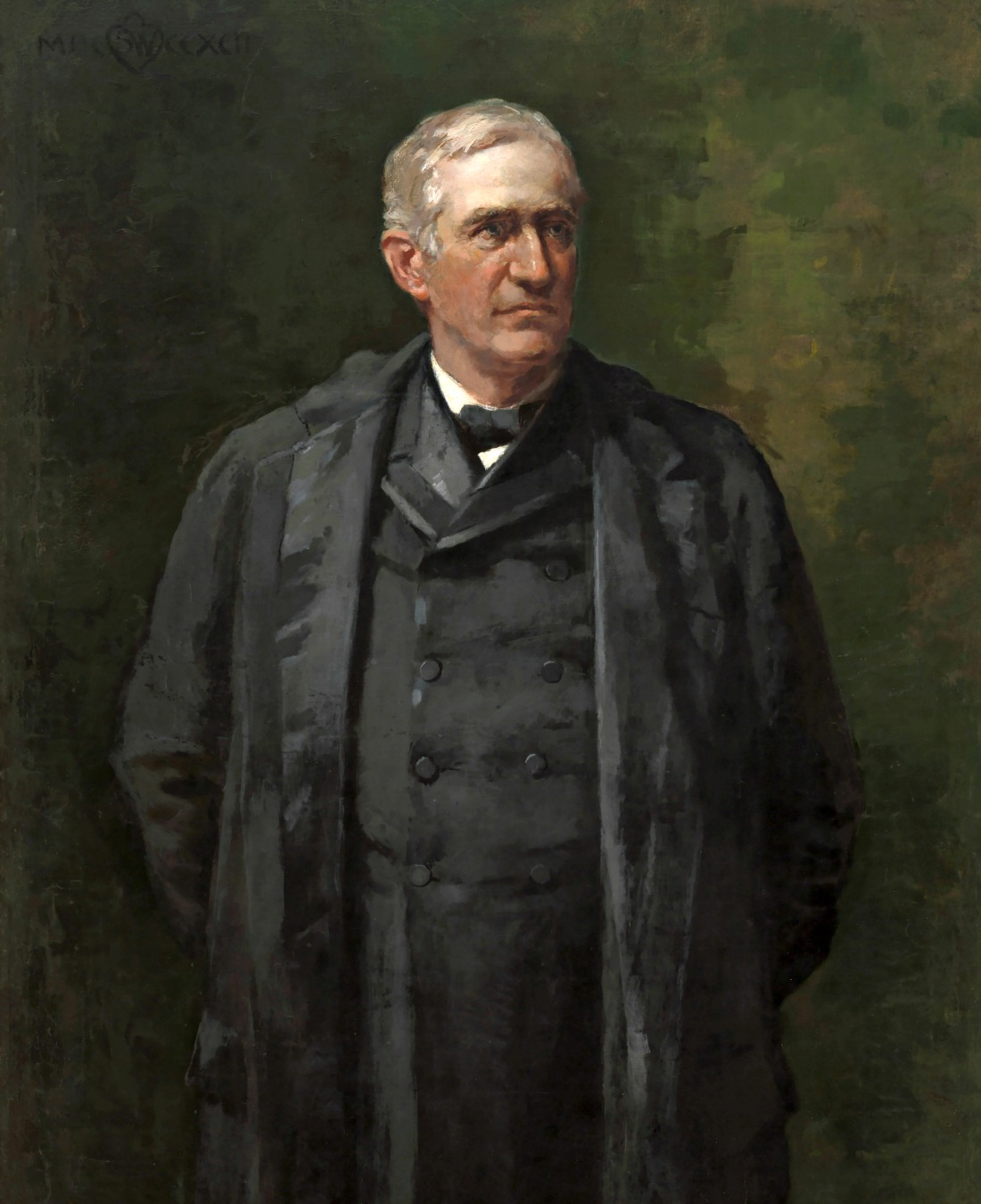 Thomas F. Bayard by painter Sarah Wyman Whitman, The Diplomatic Reception Rooms, U.S. Department of State, Washington, D.C., c 1893